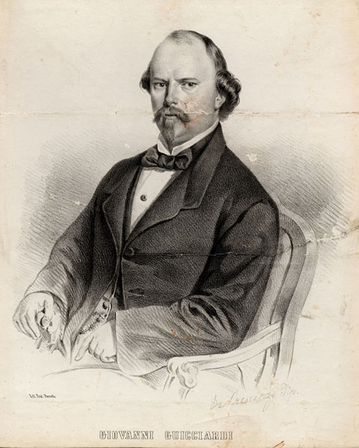 Lithograph portrait of Italian opera singer Giovanni Guicciardi (1819-1883)